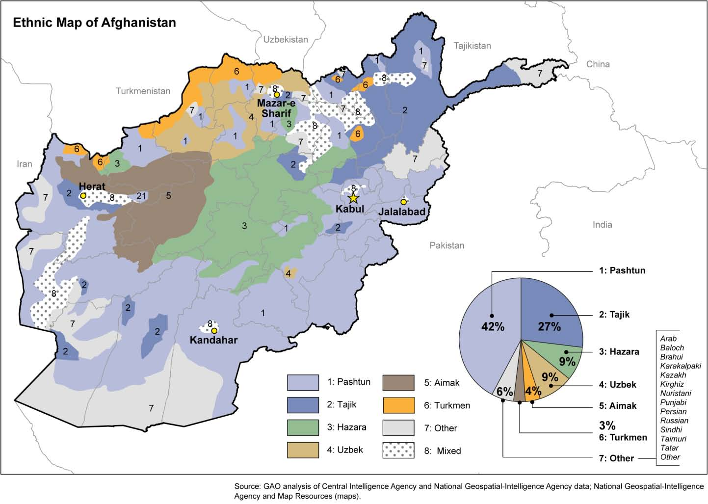 This image is excerpted from a U.S. GAO report: AFGHANISTAN: Key Oversight Issues